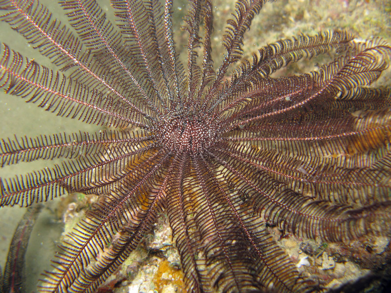 Stephanometra indica in natural position at night at Lizard Island. Australia